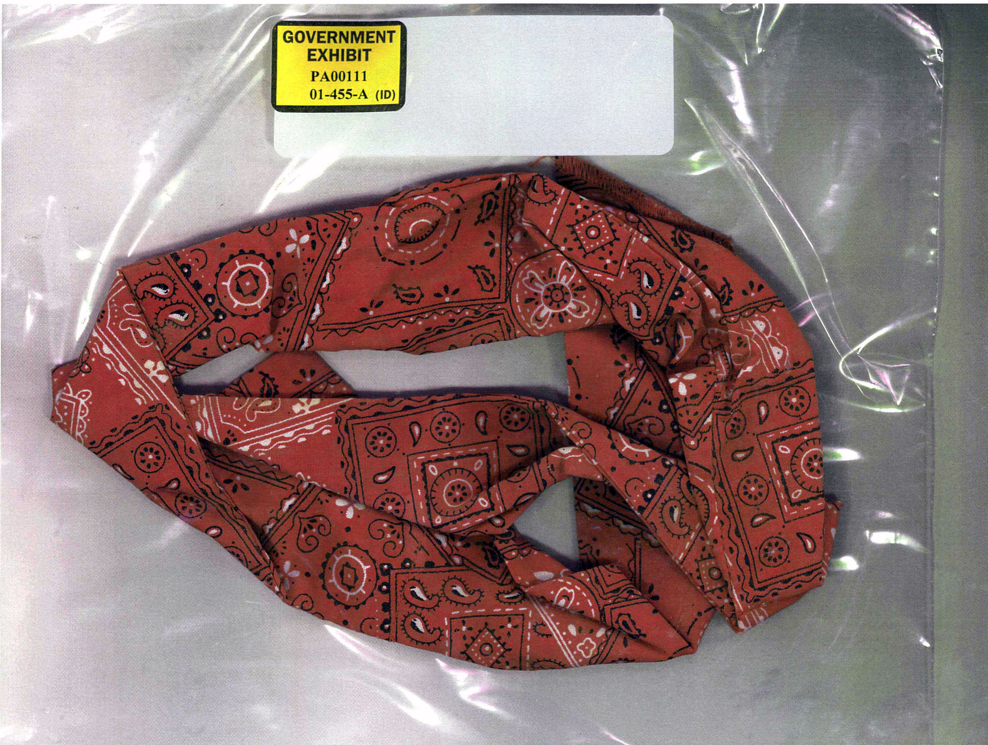 Red bandana found at the crash site of Flight 93. Believed to be worn by the hijackers.